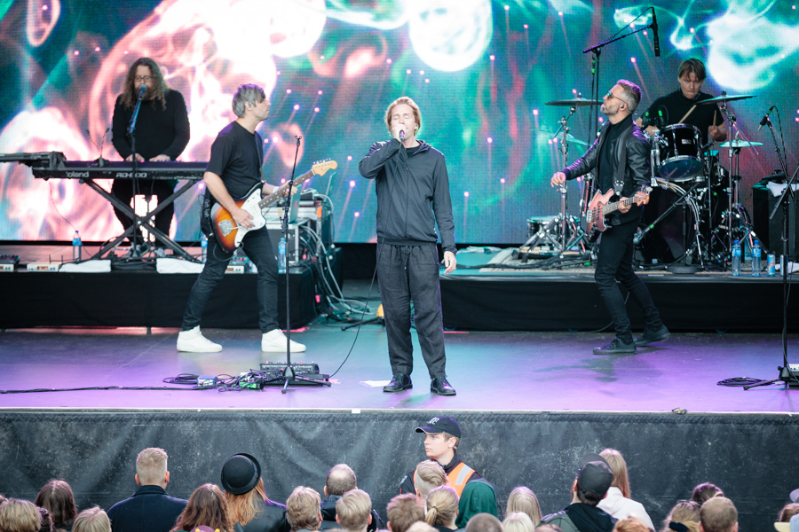 MEW at the Vigeland stage in the Vigeland Park. The concert was part of Piknik i Parken and took place on 17. June 2018 in Oslo. Lineup:Jonas Bjerre (vocal and guitar)Johan Wohlert (guitar)Silas Utke Graae Jørgensen (drums)Unidentified (keyboard)Unidentified (bass guitar)